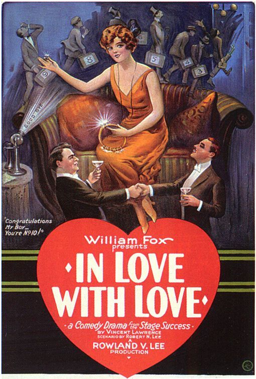 Poster for the 1924 film In Love With Love. Renewal searches were done in both film and artwork for the years 1951 and 1952. There were no listings for the film title in films and no listings for either Miner Litho (printed the poster) or Fox in artwork. There's no evidence of continuing copyright for the film and its related materials.